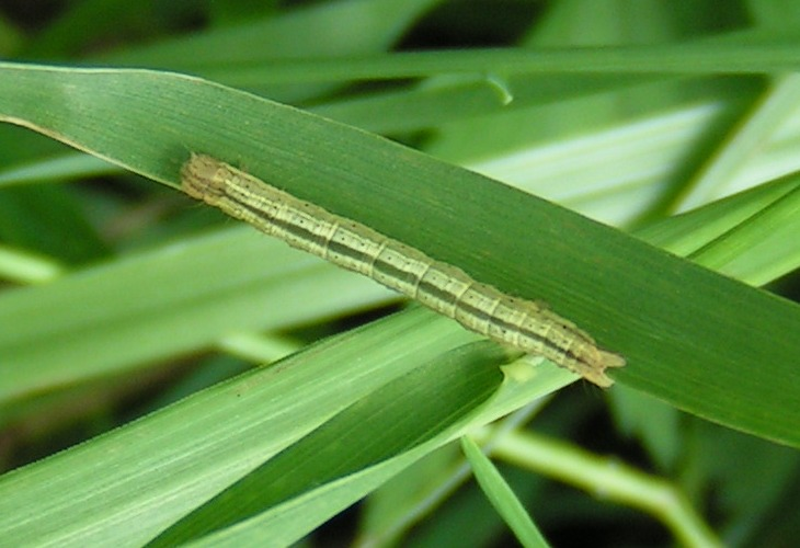 Protodeltote pygarga, larva. Location: The Netherlands - Venray - Smakterveld